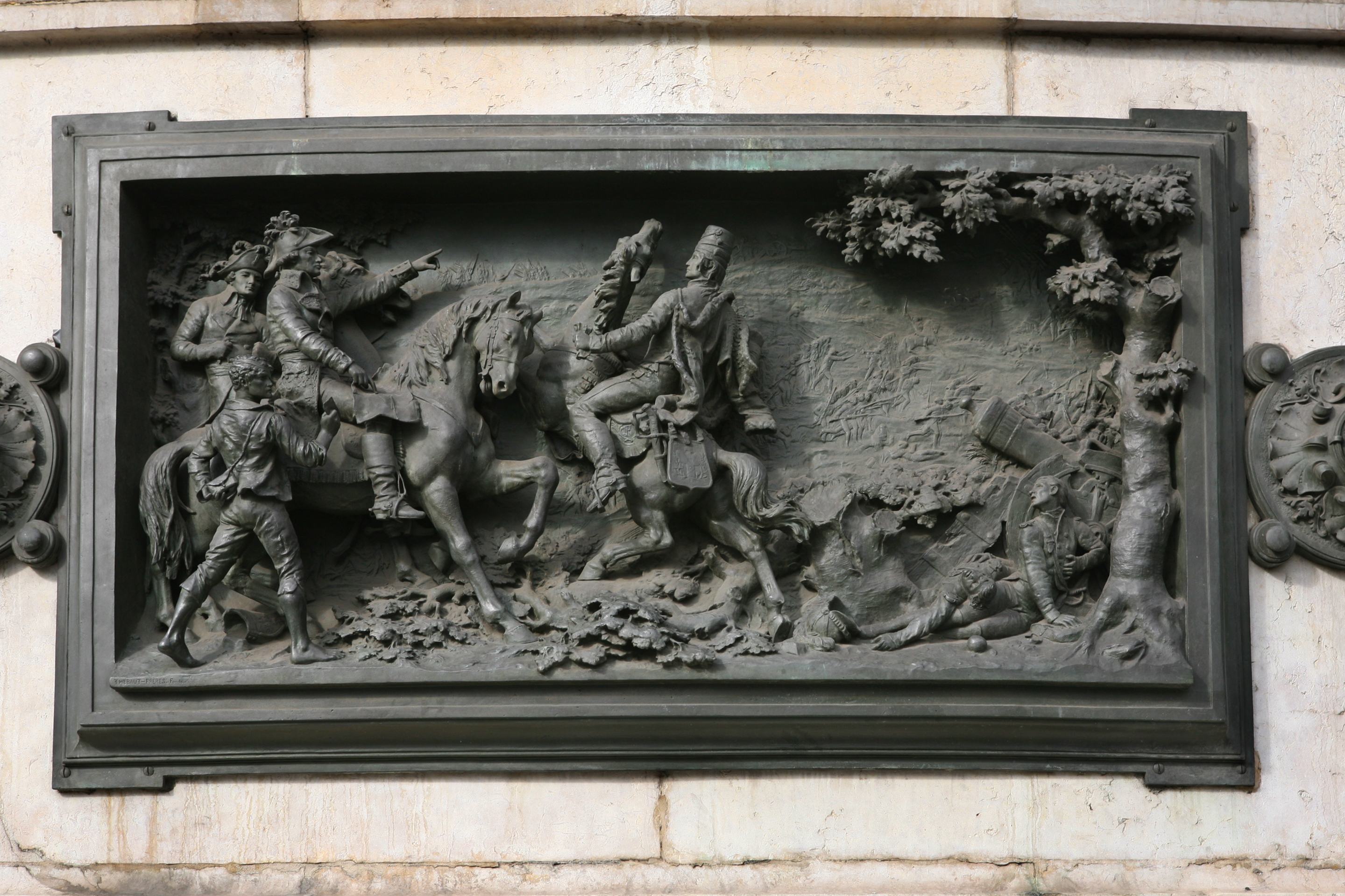 Battle of Valmy (1792-09-20), high-relief bronze by Léopold Morice, Monument of the Republic, Republic Square, Paris, 1883